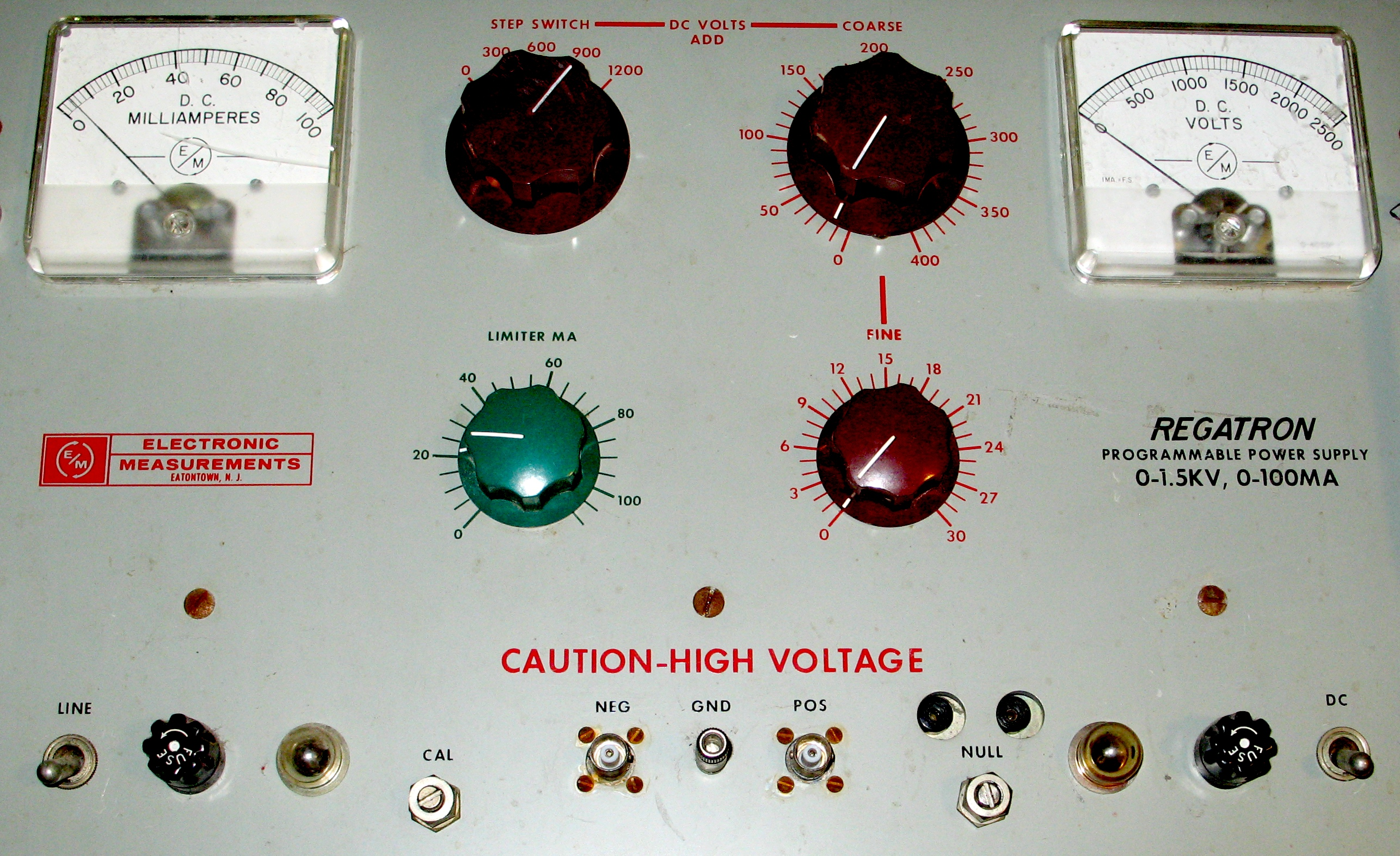 Regatron - Model 238 AMB - Rowan Controller Co - Electronic Measurements front panel view, trimming out the rack handles and 19-inch rack flange Vacuum tube, rack mount, high voltage power supply Unknown manufacture date